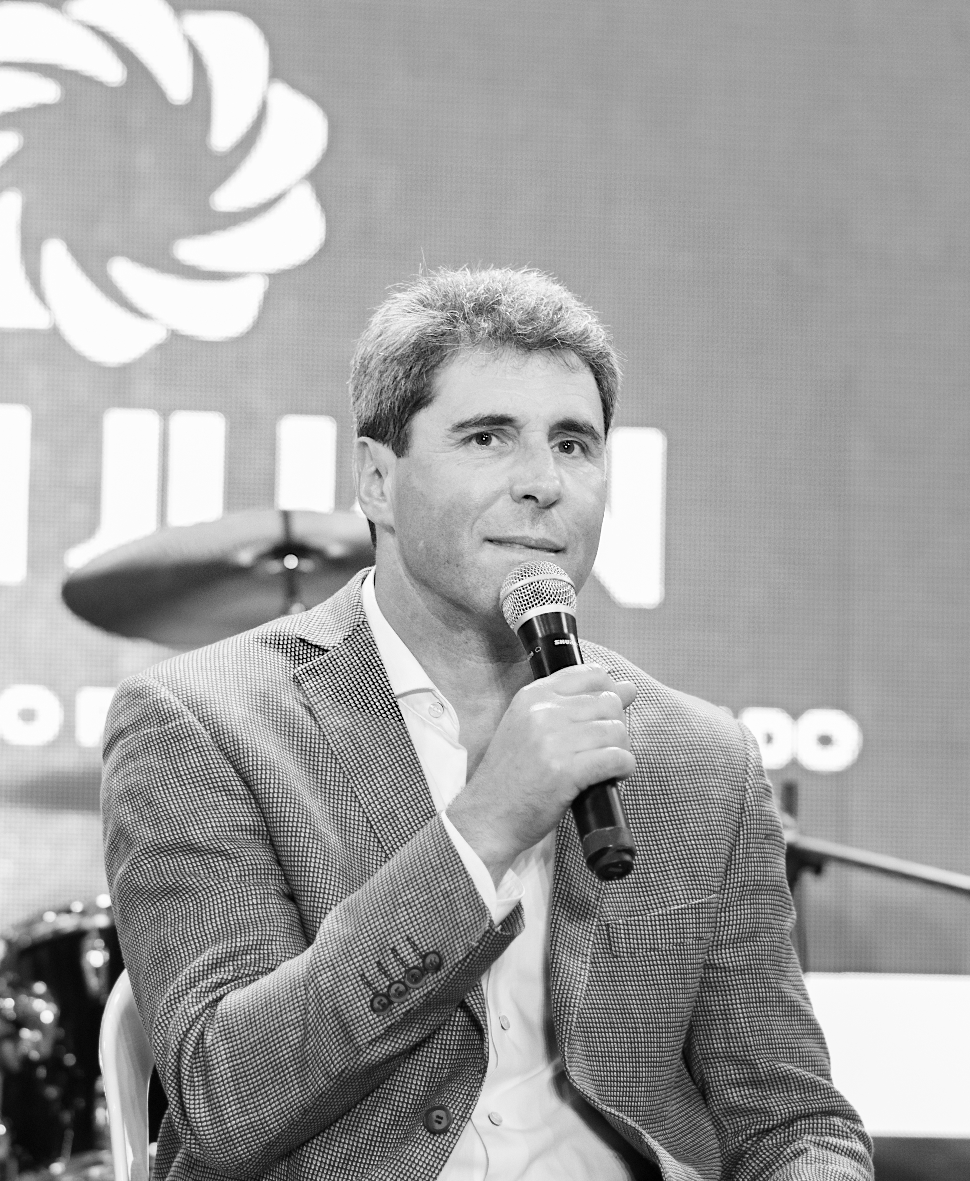 Sergio Uñac, politician of Argentina, current governor of San Juan Province (2019-2023) in espacio Clarín, Mar del Plata, Argentina